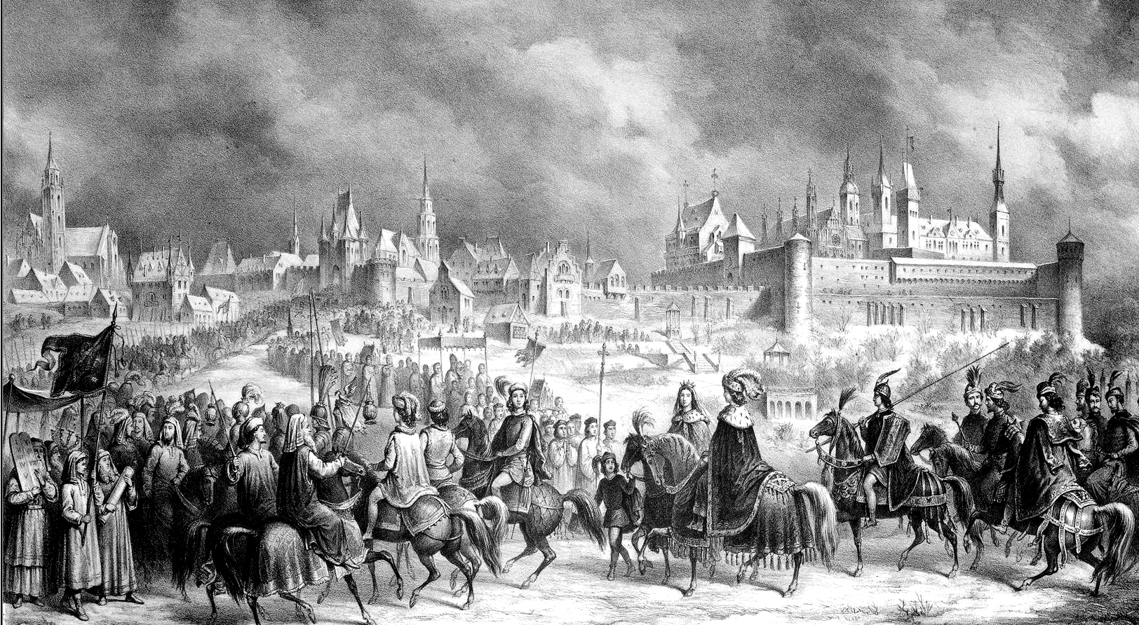 Matthias Corvinus of Hungary and his wife Beatrix arrived to Buda in 1476